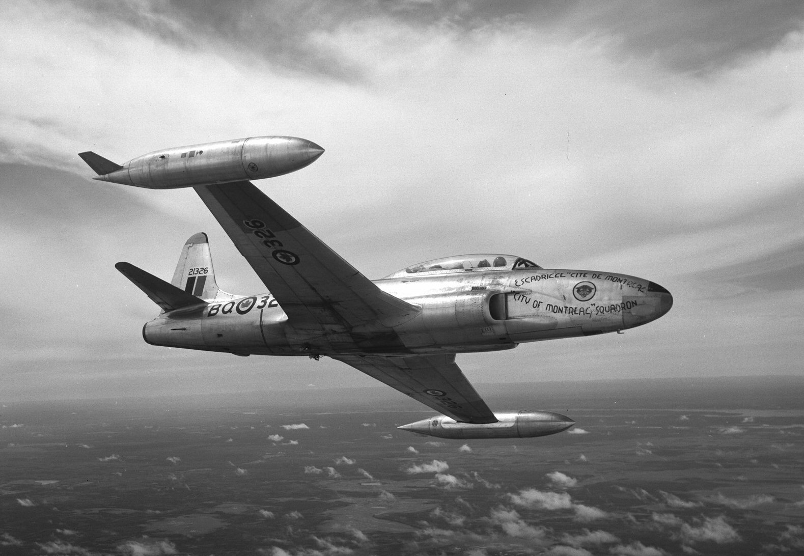 CT133 Silver Star 438 Squadron RCAF